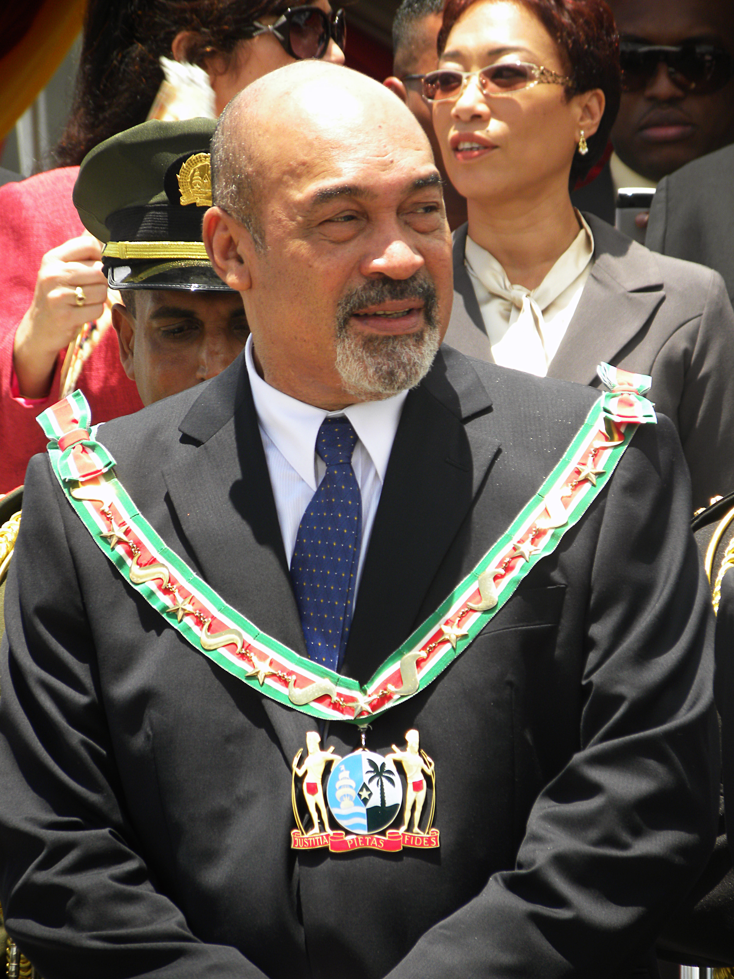 Desi Bouterse, president of the Republic of Suriname, on a military parade right after his inauguration, which took place on August 12th 2010.